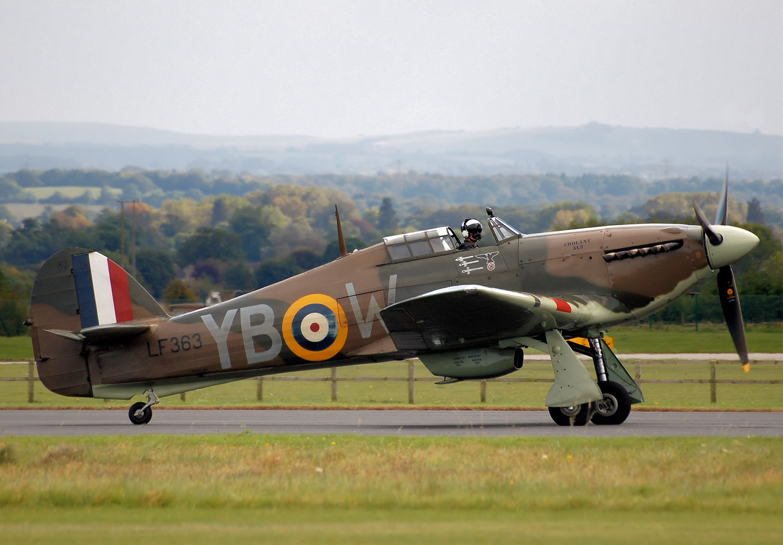 Battle of Britain Memorial Flight Hawker Hurricane LF363 taxiing for takeoff at Kemble Battle of Britain Weekend 2009, Cotswold Airport, Gloucestershire, England. The BOBMF brochure for 2009 says “this is believed to be the last Hurricane ever to enter RAF service. It first flew on 1 January 1944. LF363 wears the colours of Hurricane Mk I P3878 YB-W”